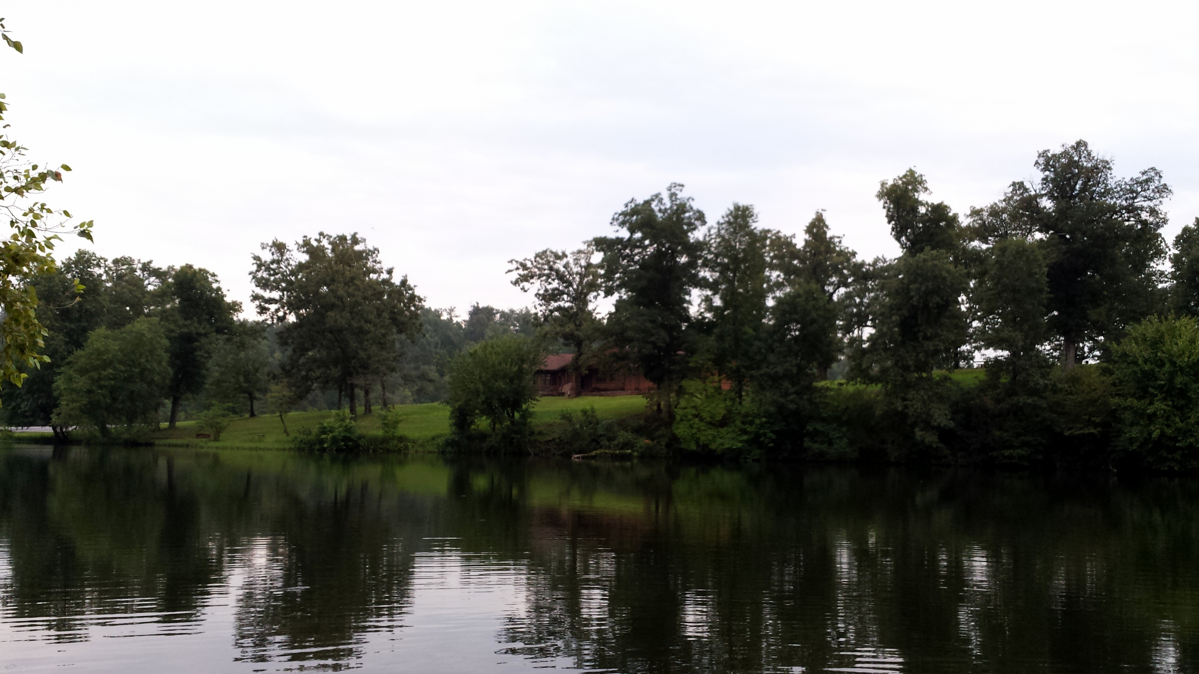 Lake Wedington with historic recreational building in the background